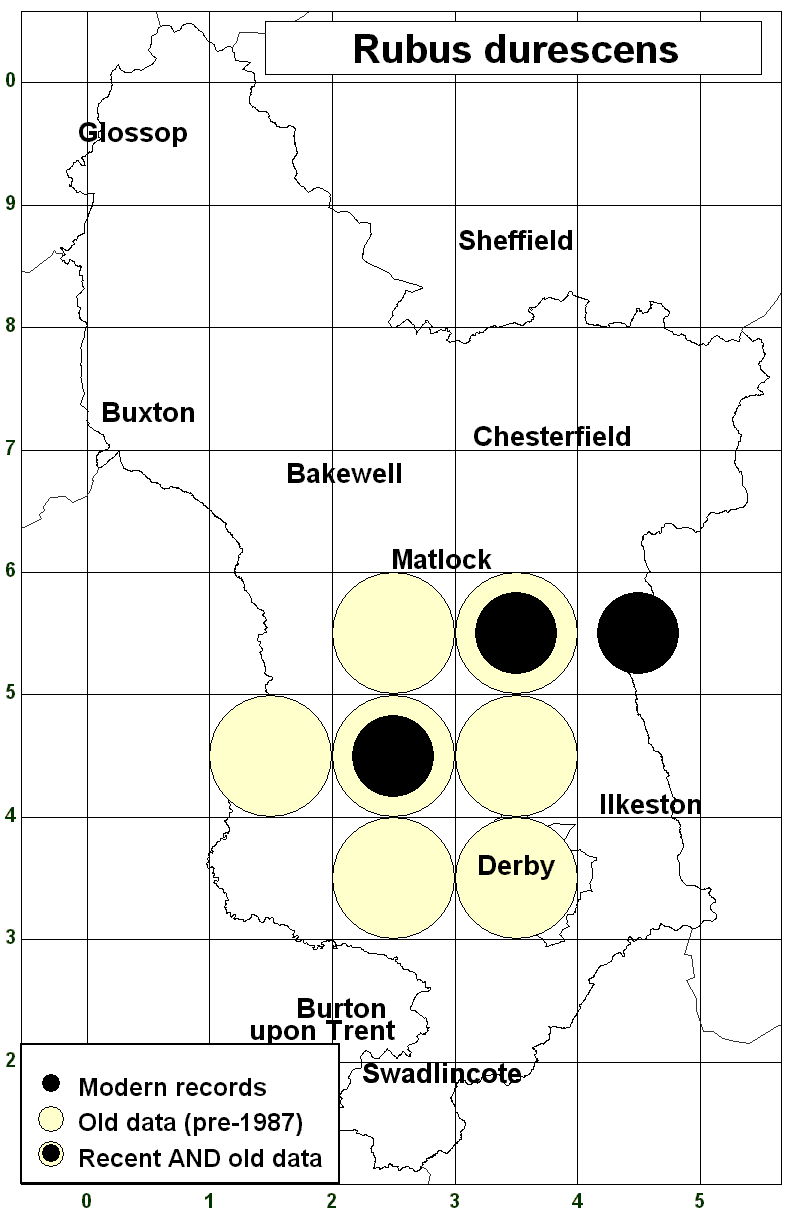 Map of Derbyshire, England, showing the distribution of Rubus durescens, an endemic microspecies whose entire world population occurs only here. Symbols represent presence within 10 x10km squares.